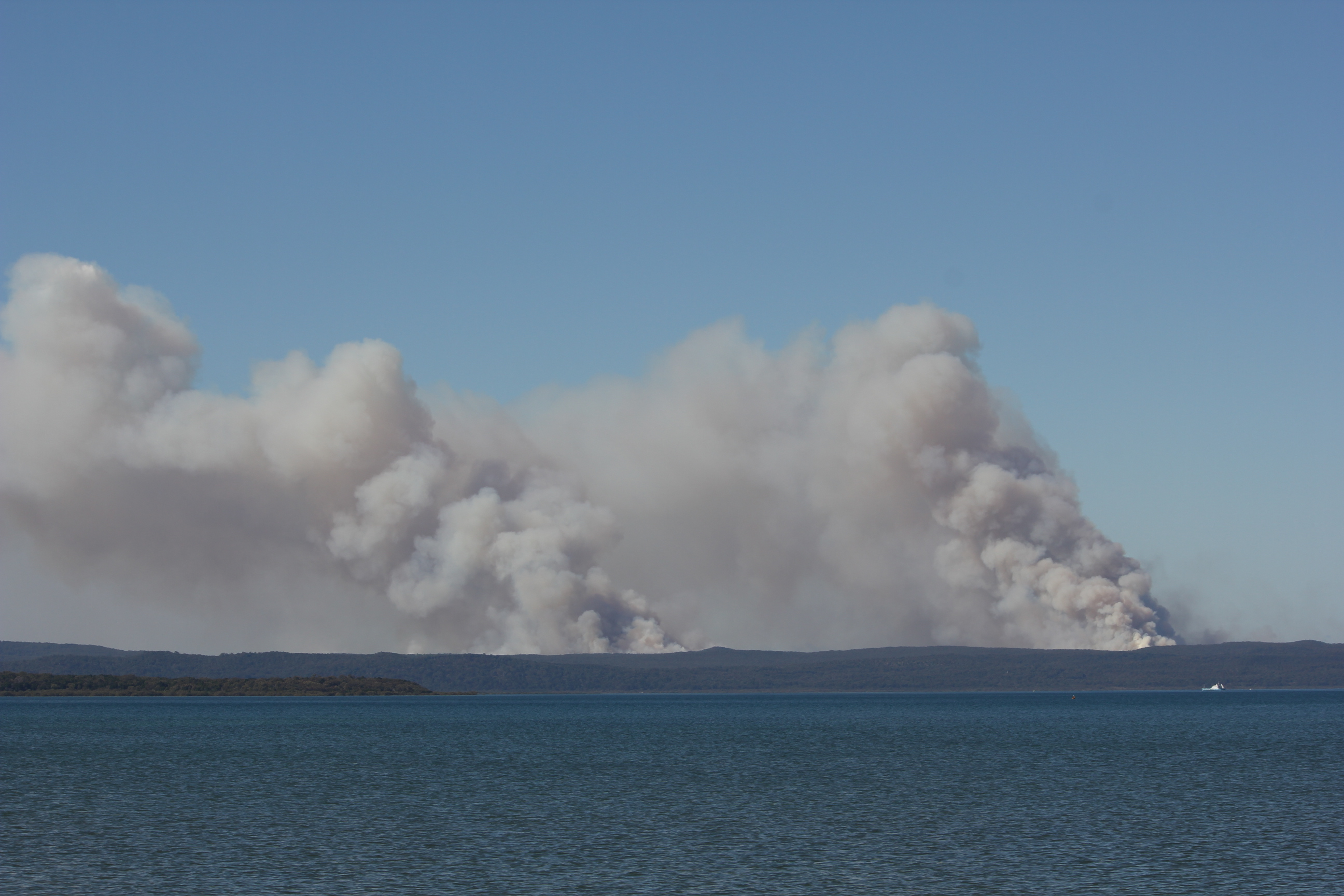 Smoke plumes from controlled bushfires on North Stradbroke Island seen from Cleveland in July 2011.